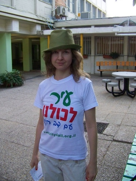 Karin Ophir - Israeli actress